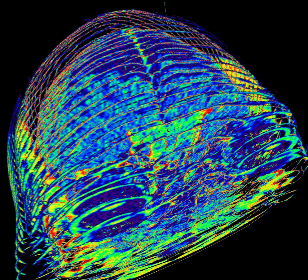 A few years ago I had my first ever severe migraine with floaty sparkly things in the visual field, and I was worried this might be a sign of something severe. So I went in and had a CT scan done. The doctors said, everything is fine, no tumors, aneurysms, etc. I said, can I have a copy of my medical images? Sure, for something like $10, I get all the scans on a CD, as DICOM encoded medical images. This model of my brain was constructed using free software, OsiriX I think. For this particular image, bone-density structures were subtracted out and rendered as black. I then converted the images to PNG and changed the black to represent transparency. These individual slices were imported into Second Life where I built a very simple 3D display platform, stacking up the slices in open space, and the transparent layers allow the slices to take on a quasi-3D appearance. The overall slices are enclosed inside a large box that is black on the inside and transparent on the outside, so the box is the black background seen in the image. Without the darkening box, the world of Second Life shows through the black regions of this image.